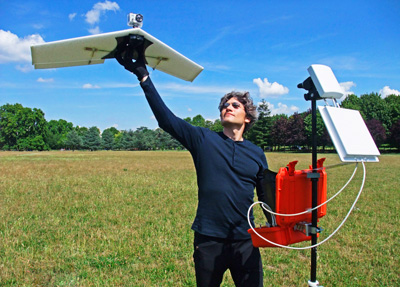 Lehmann Aviation LM450 UAS